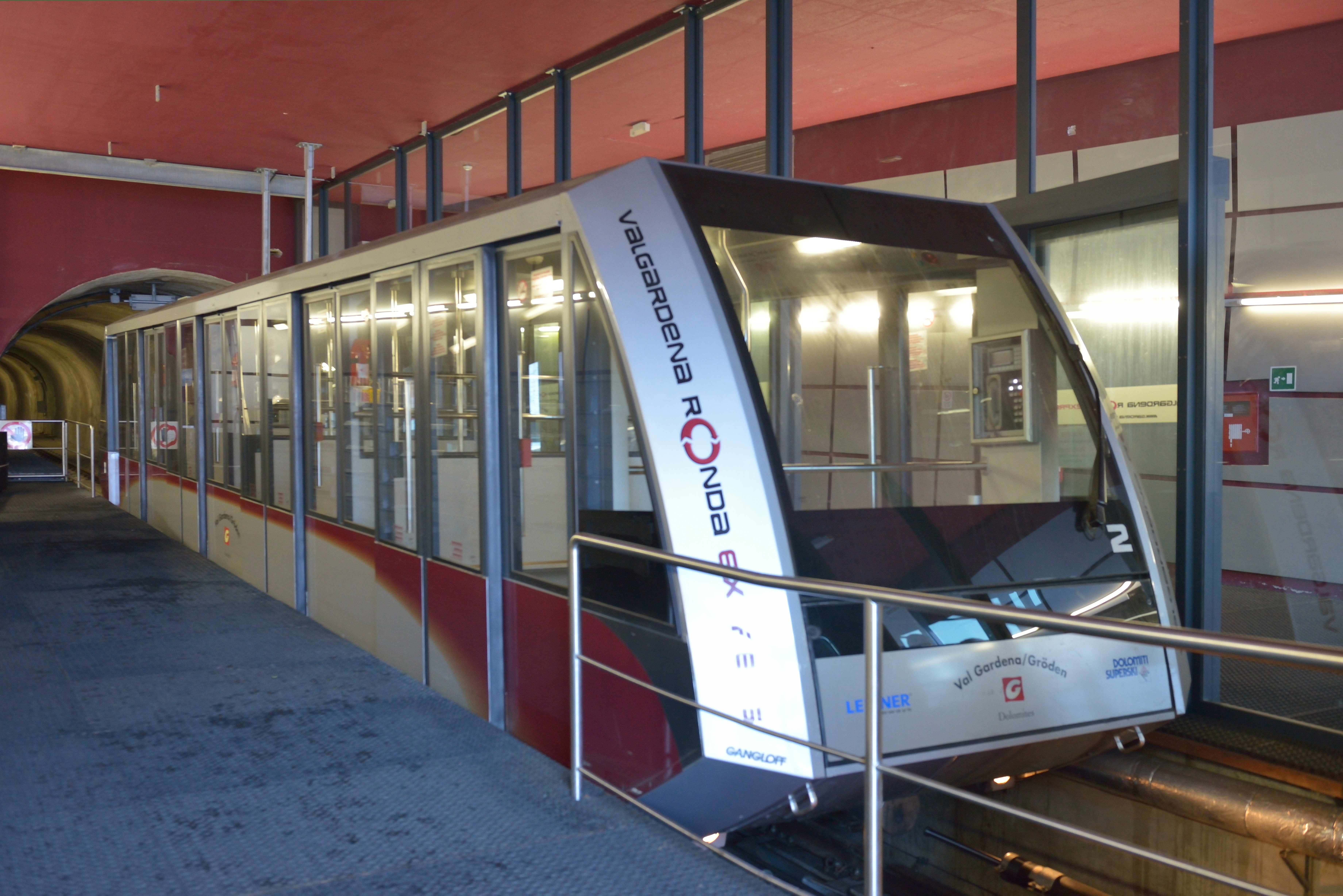 Gardena Ronda Express train in Gröden